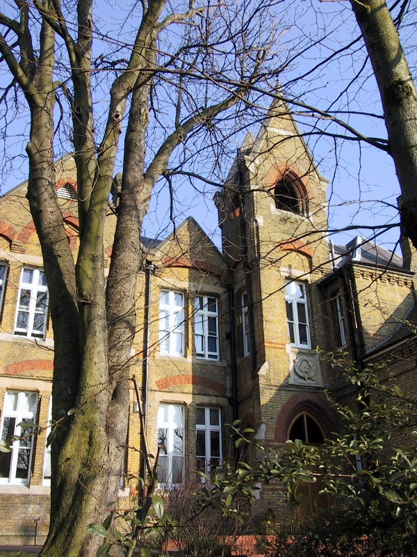 Upper School (Boys School)